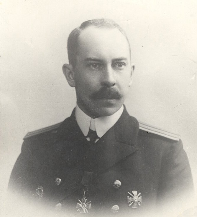 Rozvozov, Aleksandr Vlkadimirovich